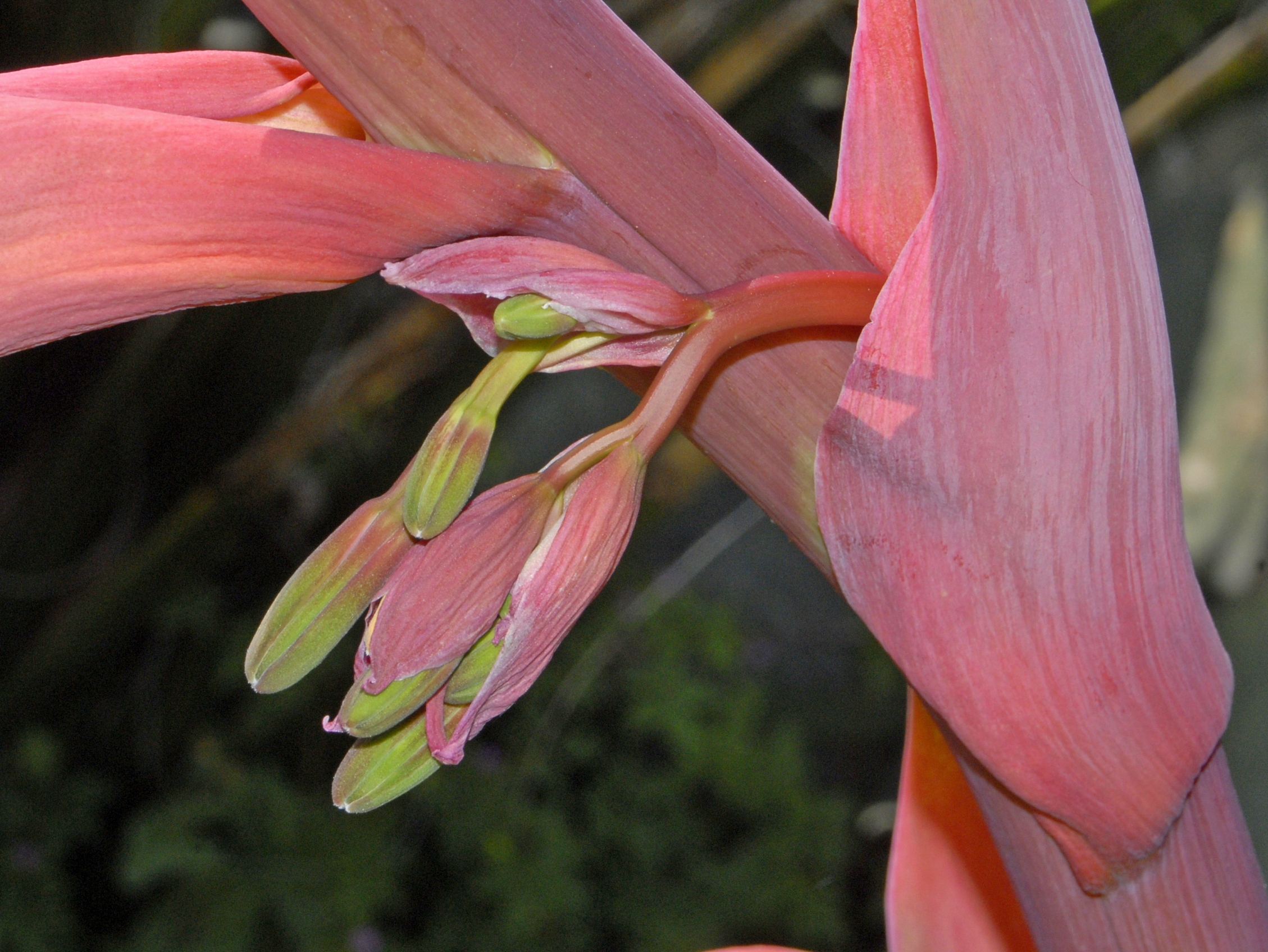 Blooms of Beschorneria yuccoides at Villa Durazzo-Pallavicini, Genova Pegli